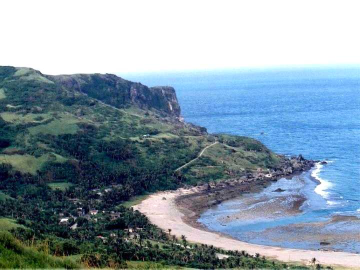 The hillside view of Imnajbu, Batanes in the Philippines - The birthplace of Christianity in Batanes!